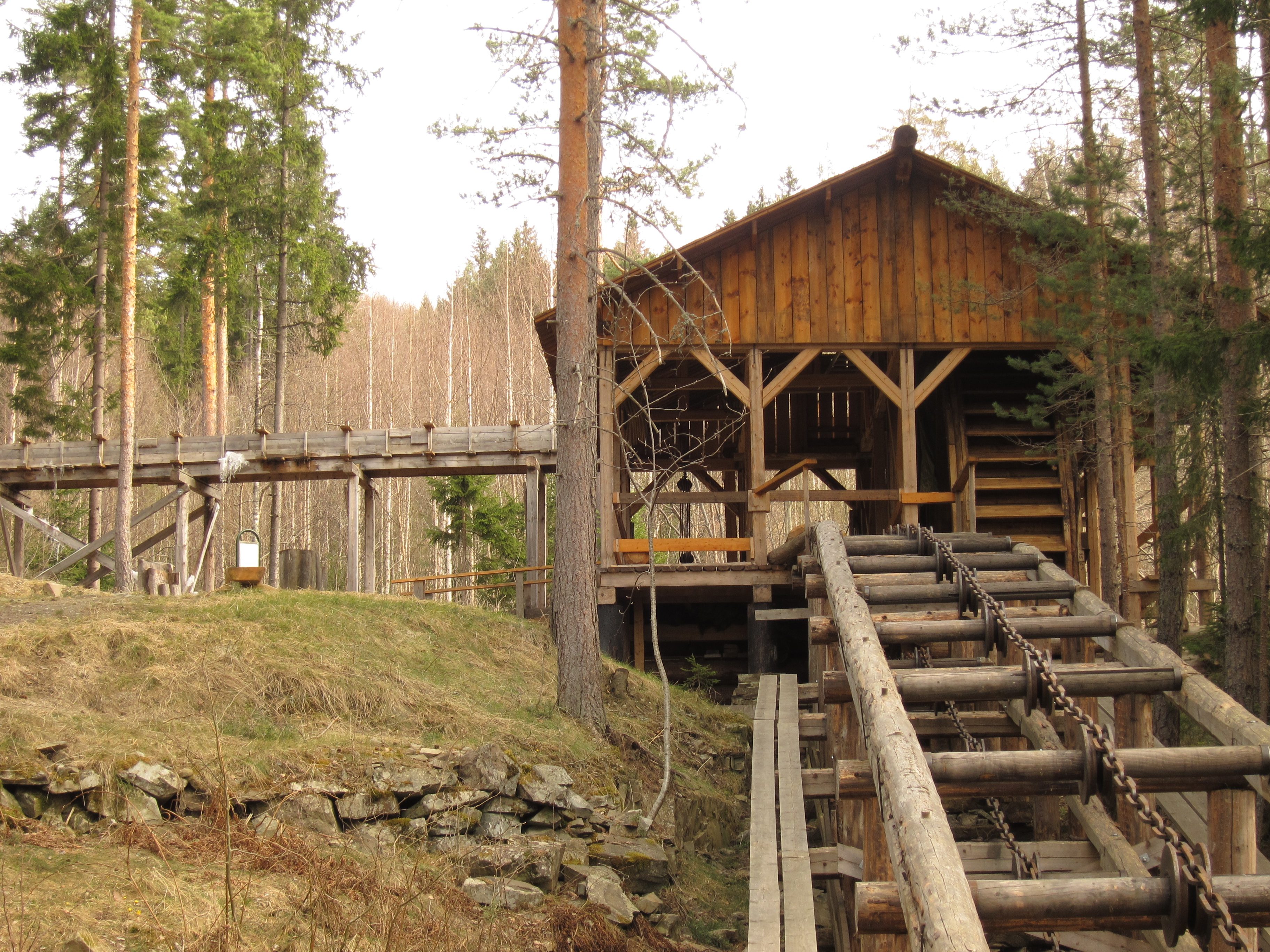 The Kjerrat at Åsa, Steinsfjorden, Buskerud, Norway